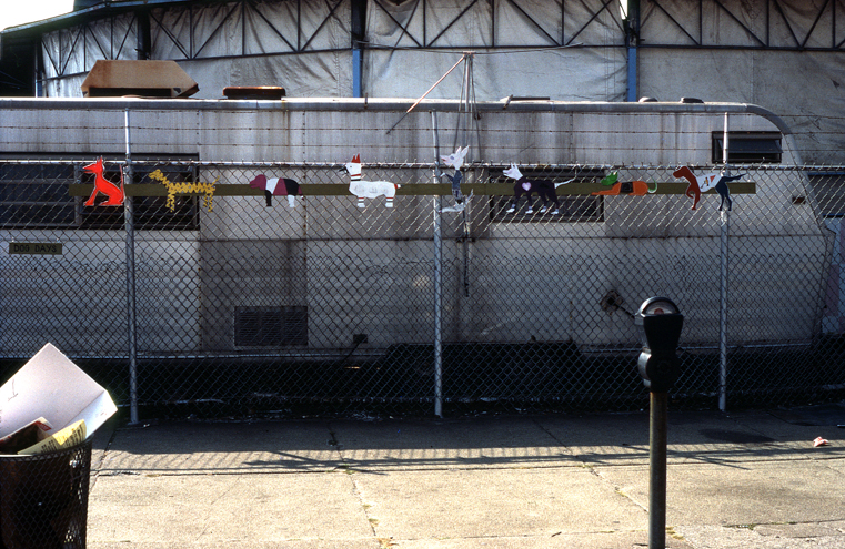 this is a unique art work made by me